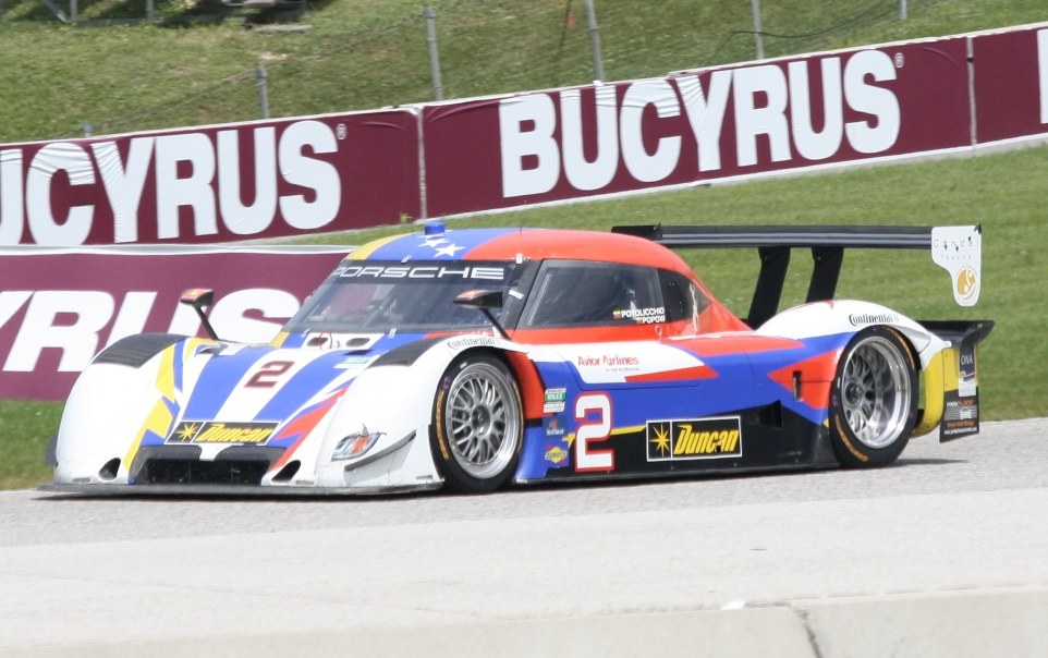 The Daytona Prototype of Alex Popow and Enzo Potolicchio racing in Grand-Am sports car at Road America.